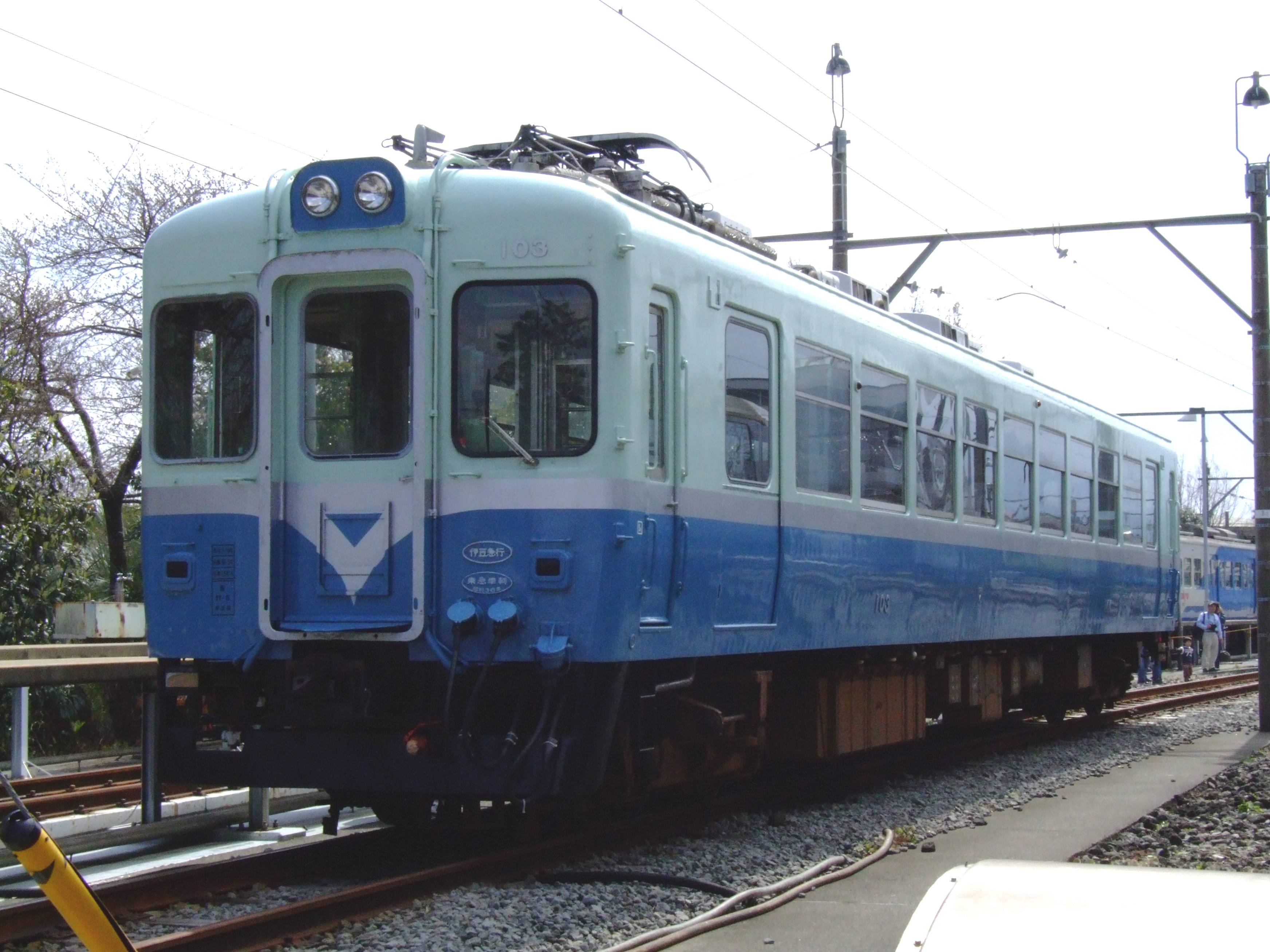 Izu Kyuko (Izukyu) Railway type 100